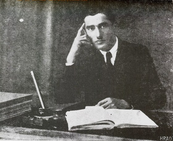 Nuri Dersimi (1893-1973)